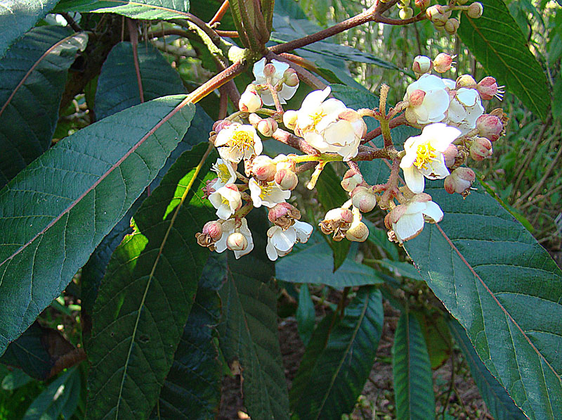 Native to southern Mexico. Photo from San Francisco Botanical Gardens. In context at